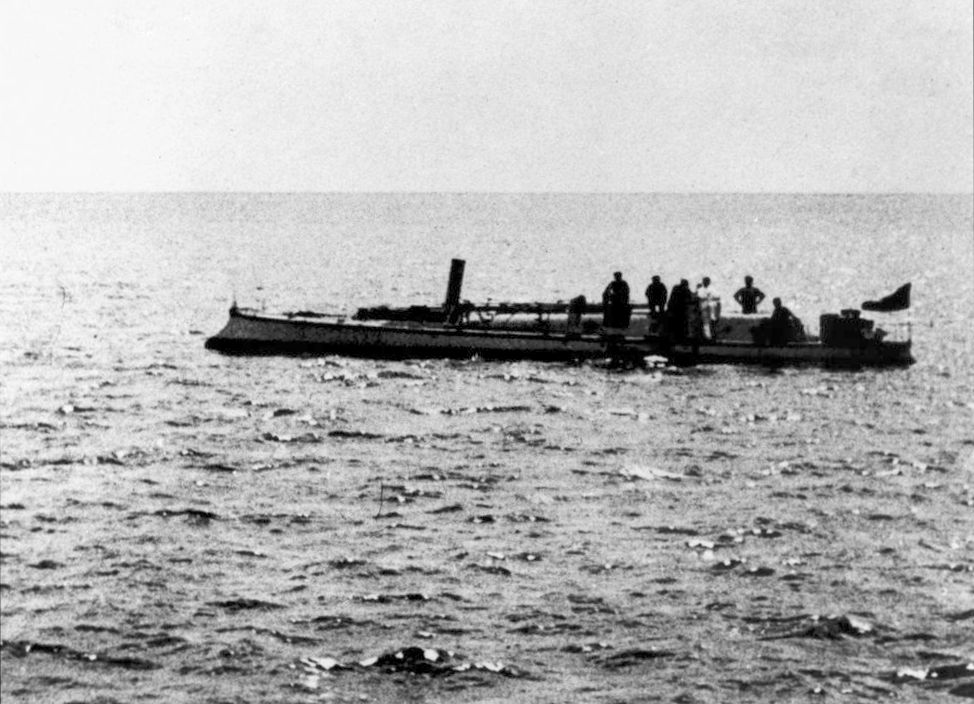 Mosquito (ship) The 'Mosquito', launched 16 July 1884, first vessel of the Queensland Marine Defence Force to arrive in the colony. (Information taken from: N. S. Pixley, The Queensland Marine Defence Force, 1946).